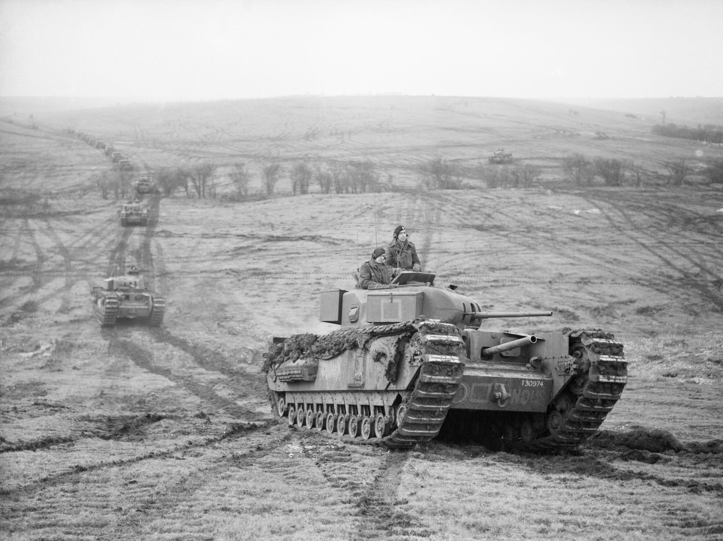 Churchill tanks of 9th Royal Tank Regiment during an exercise at Tilshead on Salisbury Plain, 31 January 1942. Churchill tanks of 9th Royal Tank Regiment during an exercise at Tilshead on Salisbury Plain, 31 January 1942. The lead vehicle, 'Indus' of 'B' Squadron, is a Mk I with hull-mounted 3-inch close support howitzer.